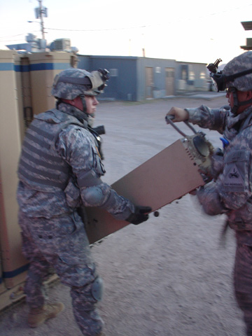 Future combat systems nlos-ls realoading